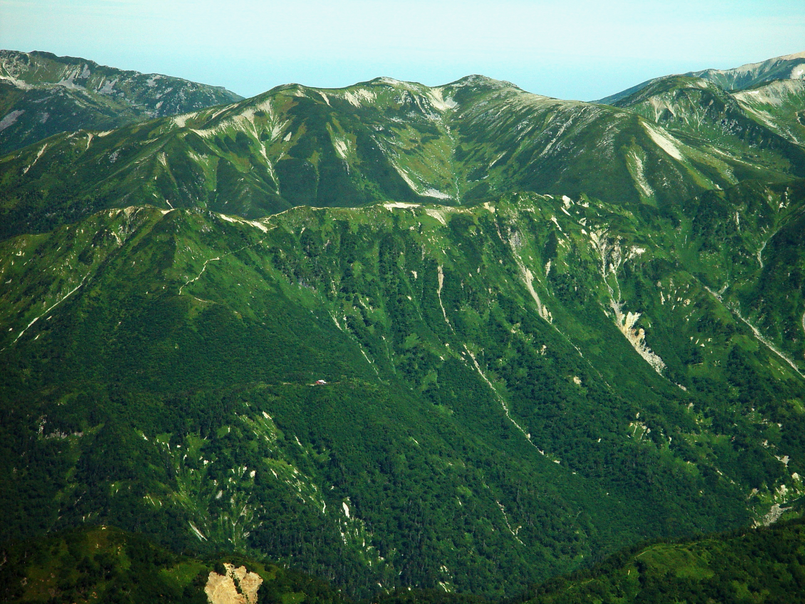 Mount Sugoroku and Yumiori seen from Mount Karasawa in Hida Mountains, Japan.